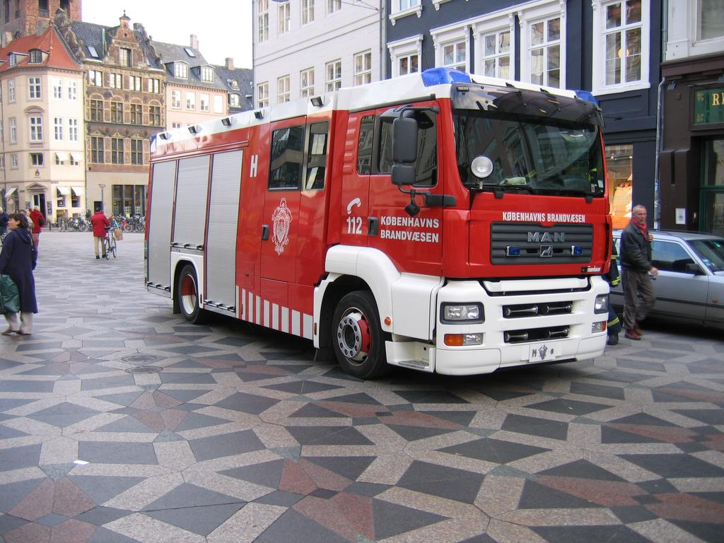 MAN 18.313 TGA fire engine of Copenhagen Fire Brigade, station H (Central Fire Station) photographed on Amagertorv in central Copenhagen.